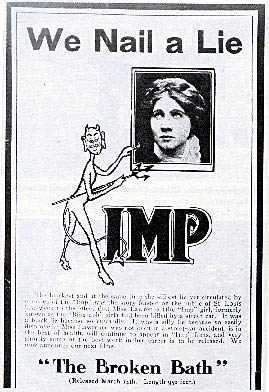 Promotion of a star, Florence Lawrence, by Carl Laemmle and the IMP studio. Published in 1910 and thus in the public domain in the U.S.